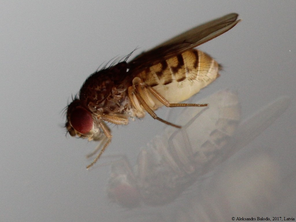 Drosophila meridiana